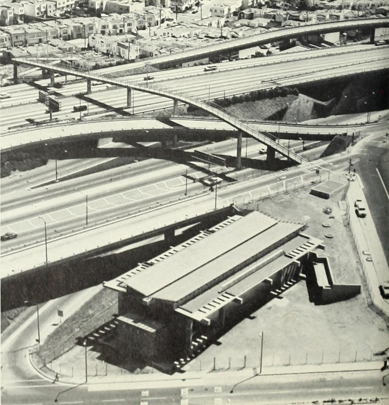 Glen Park station under construction (then in the early stages of architectural finish) in 1970